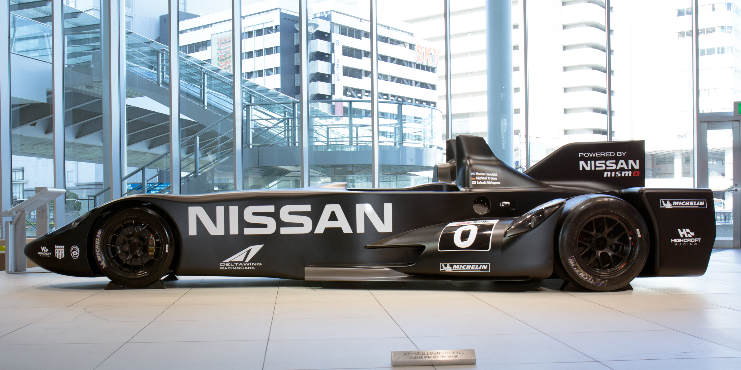 2012 DeltaWing show car